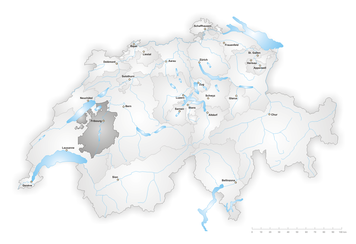 Kanton Freiburg